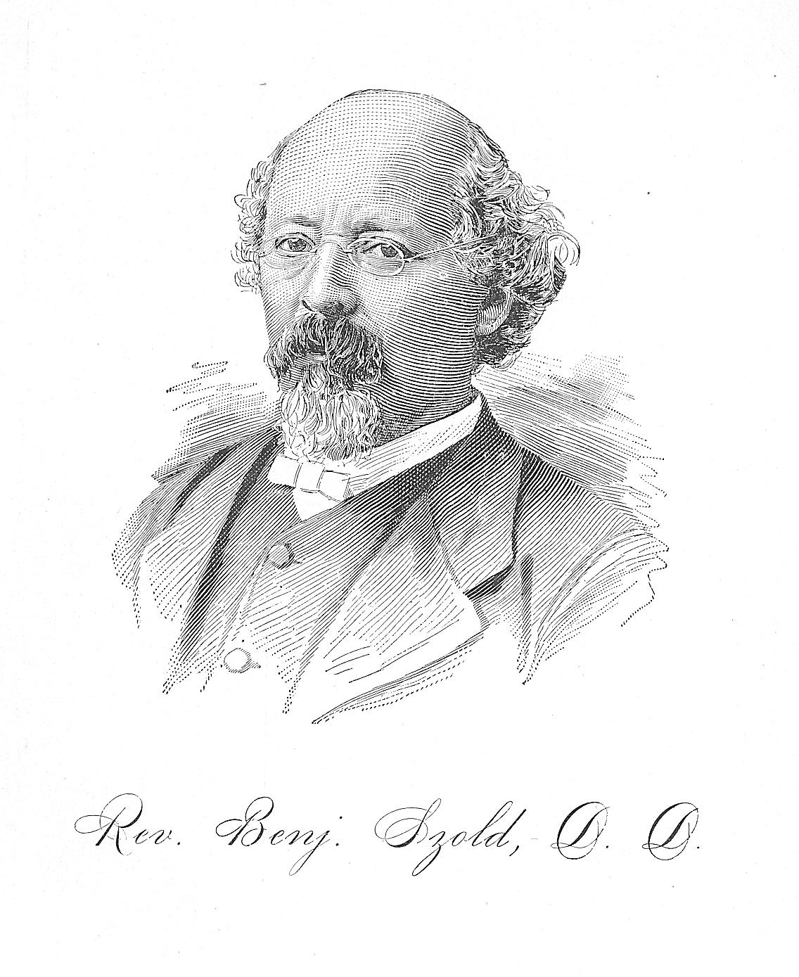 portrait of Rabbi Benjamin Szold, Baltimore; contemporary engraving